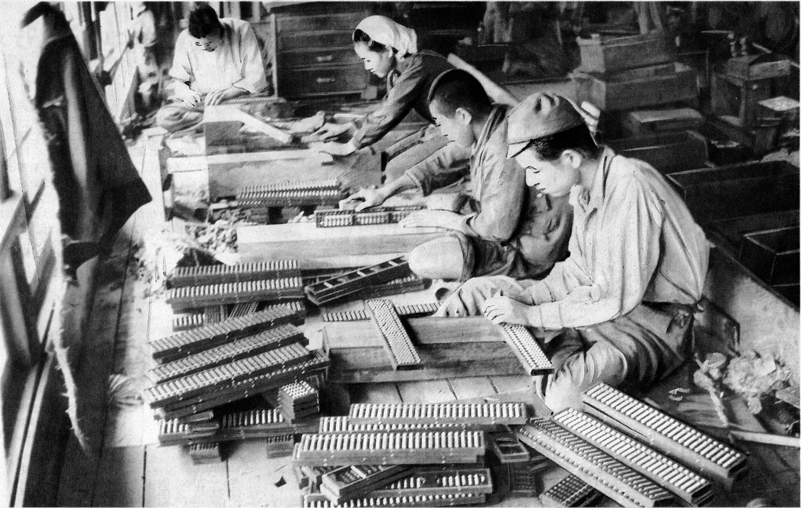 Osumi Soroban Factory in 1949 (Present Kimotsuki Town, Kagoshima Prefecture, Japan)